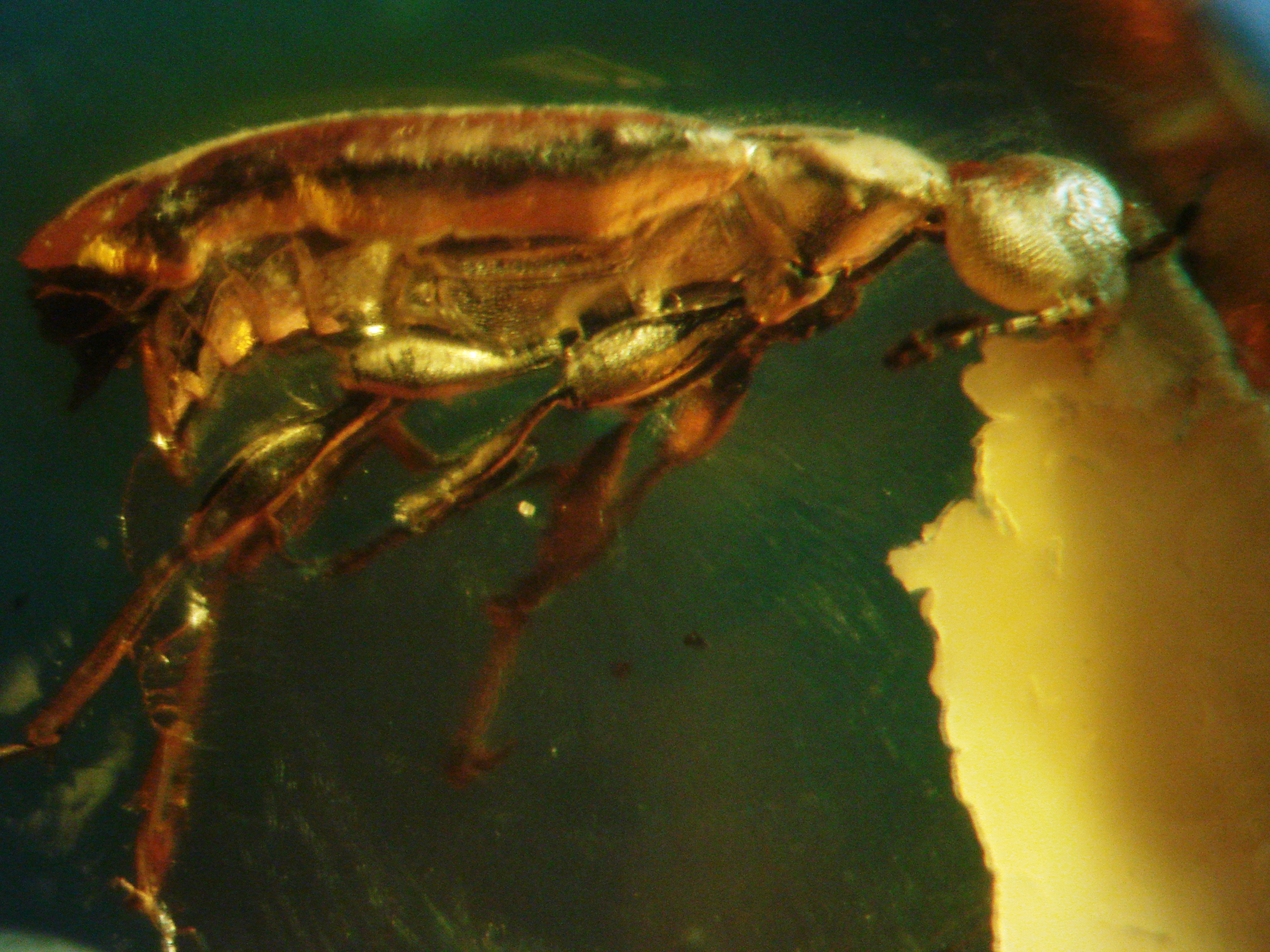 Baltic amber inclusions - 50 million years old - Coleoptera, Scraptiidae, ...? Picture "Baltic amber Coleoptera Scraptiidae 1" show the other side Picture "Baltic amber Coleoptera Scraptiidae 2" show a close-up on head